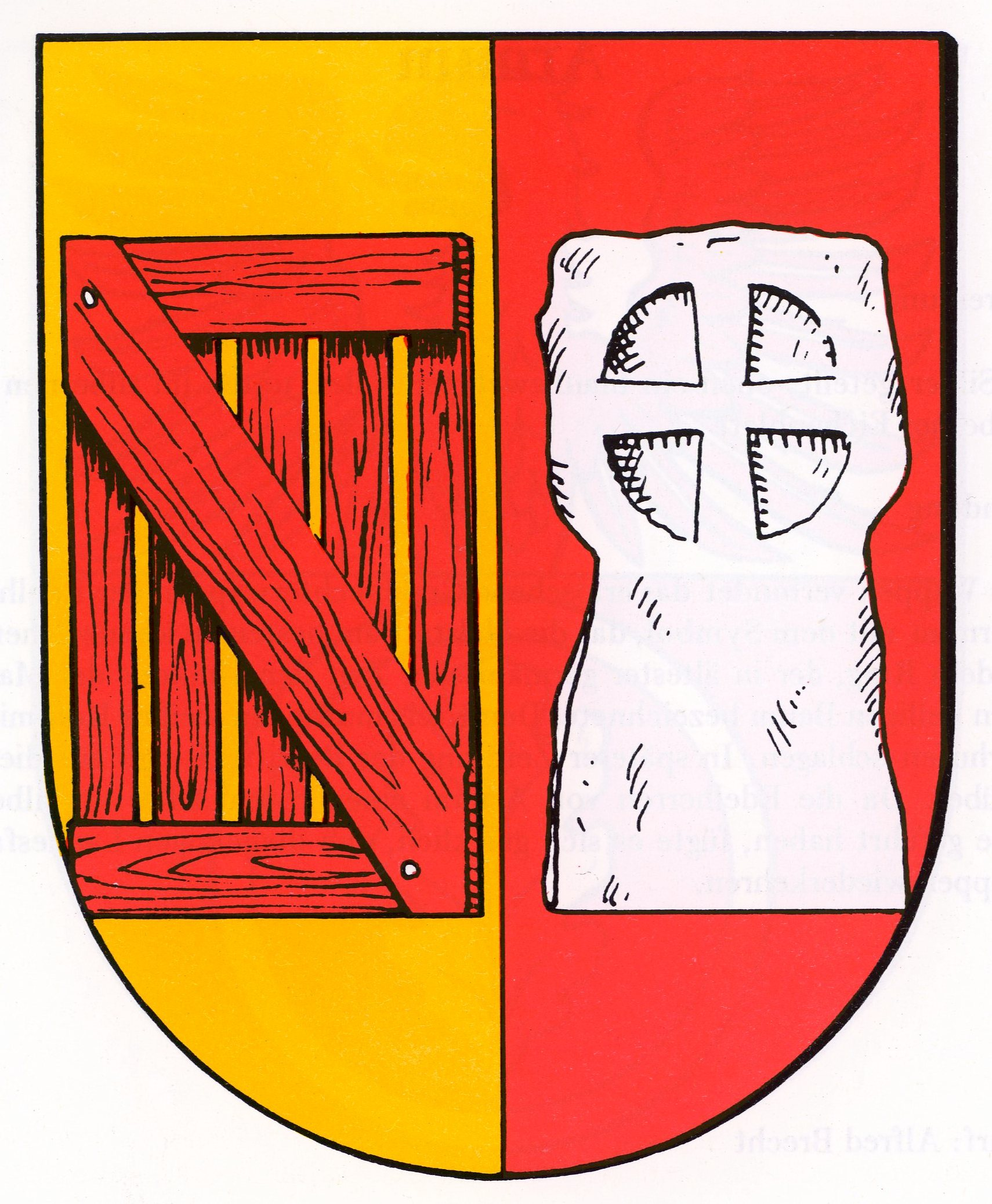 Coat of Arms of Harkenbleck, Part of Hemmingen